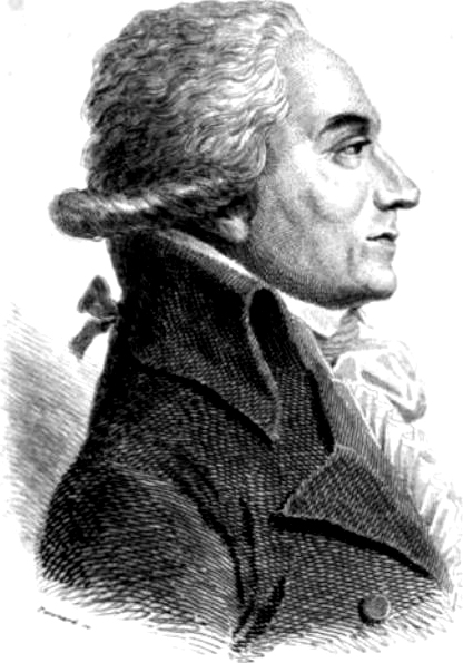 Louis Fréron (1754-1802), French Journalist.